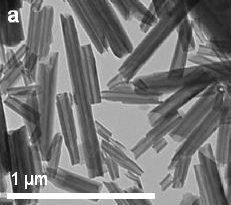 Transmission electron microscopy (TEM) of halloysite nanotubes